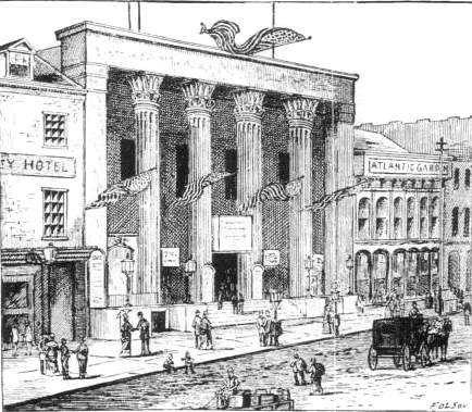 Bowery Theatre (as rebuilt in 1845 after a fire), 46 Bowery, New York.